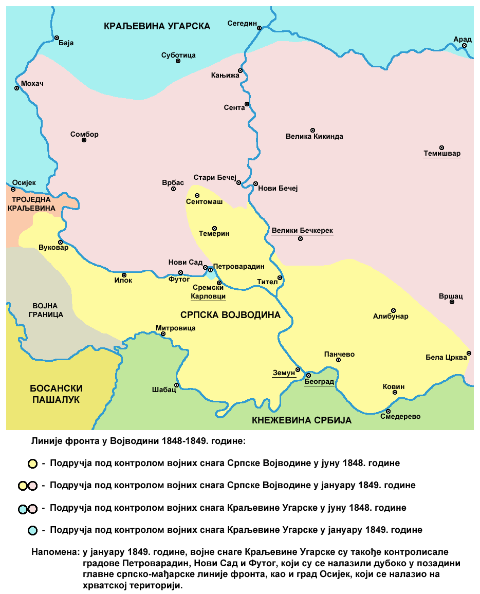 Frontlines in Vojvodina in 1848-1849.